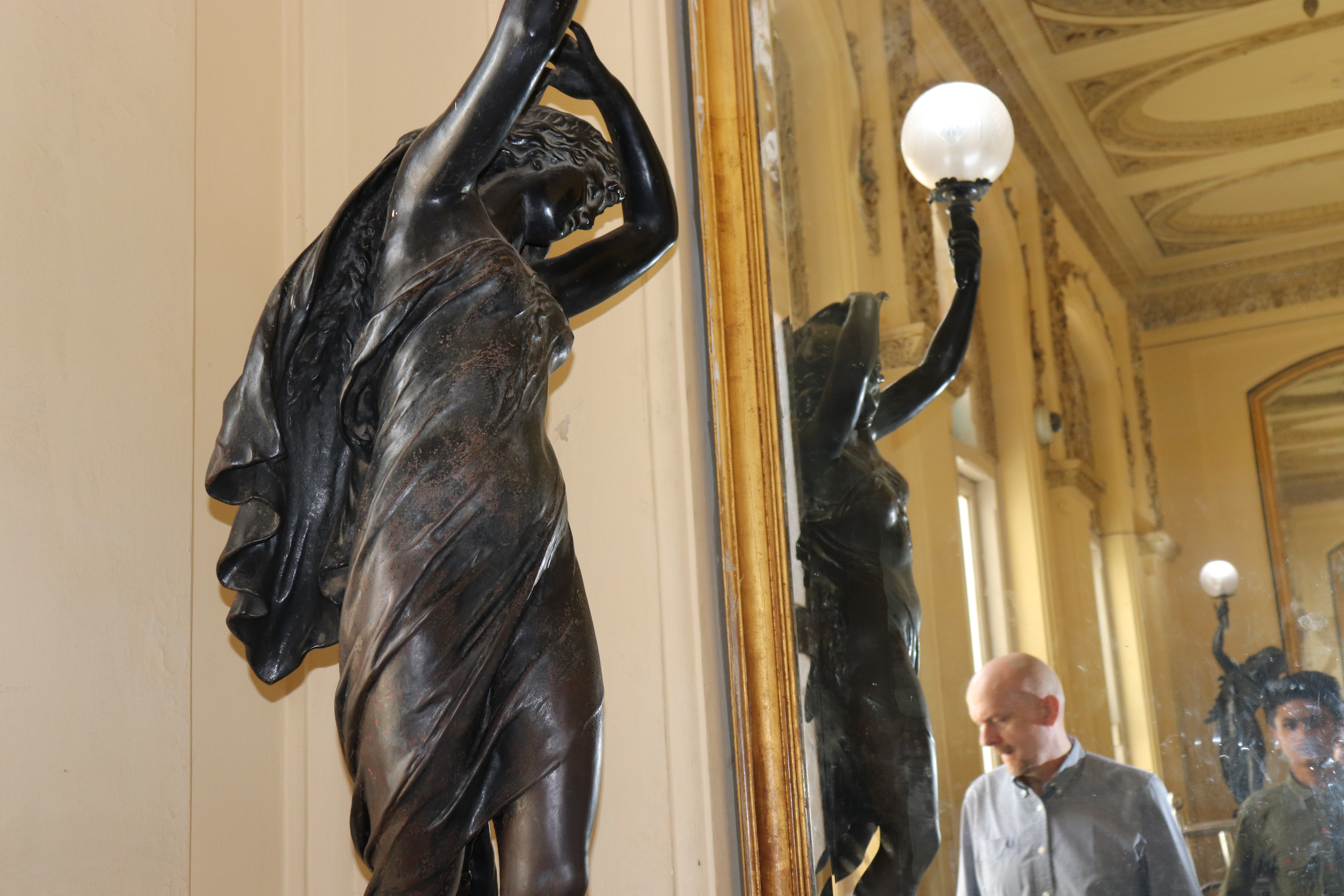 Inside Mysore Palace